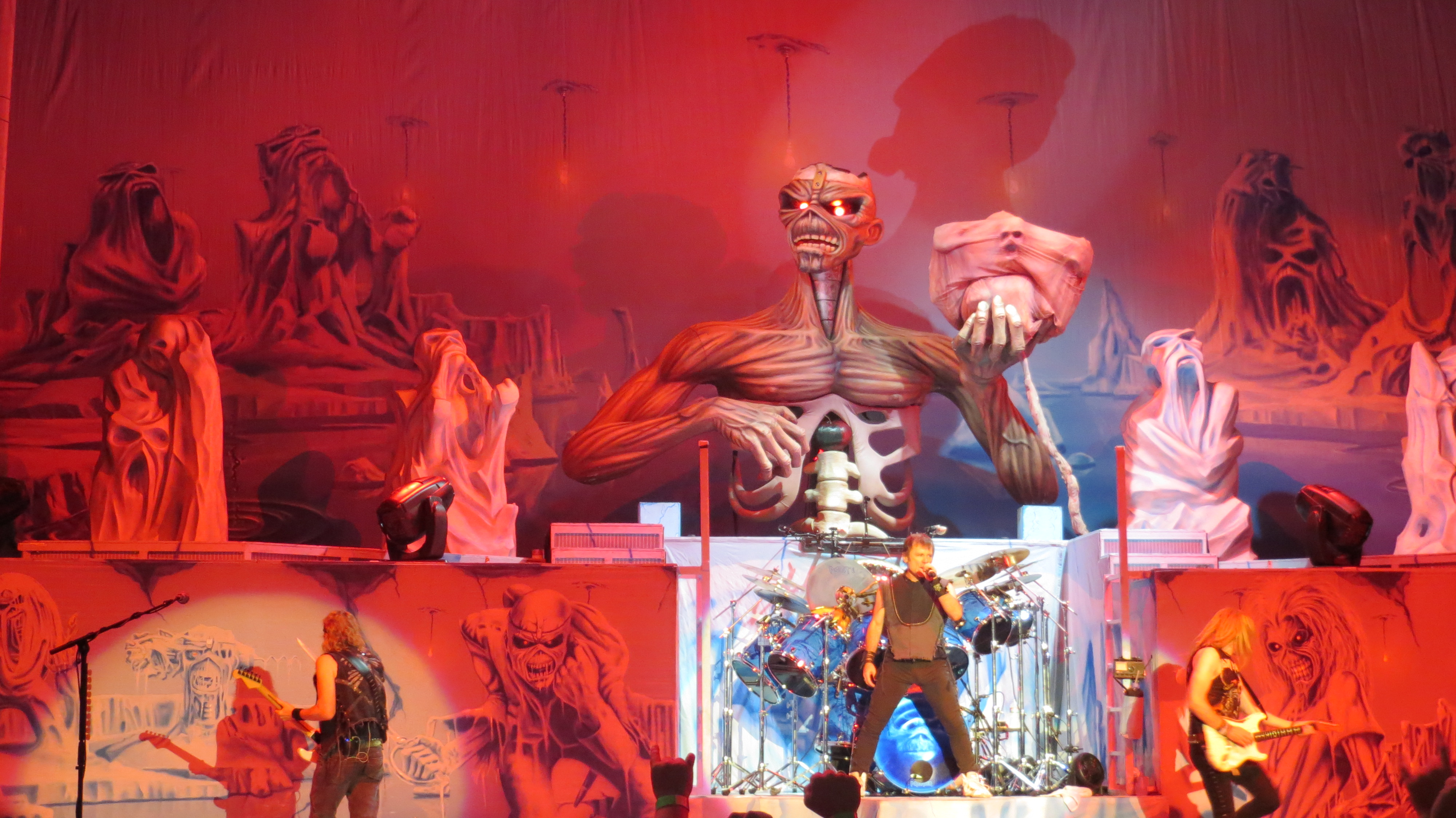 Iron Maiden performing live in Denver, 13 August 2012